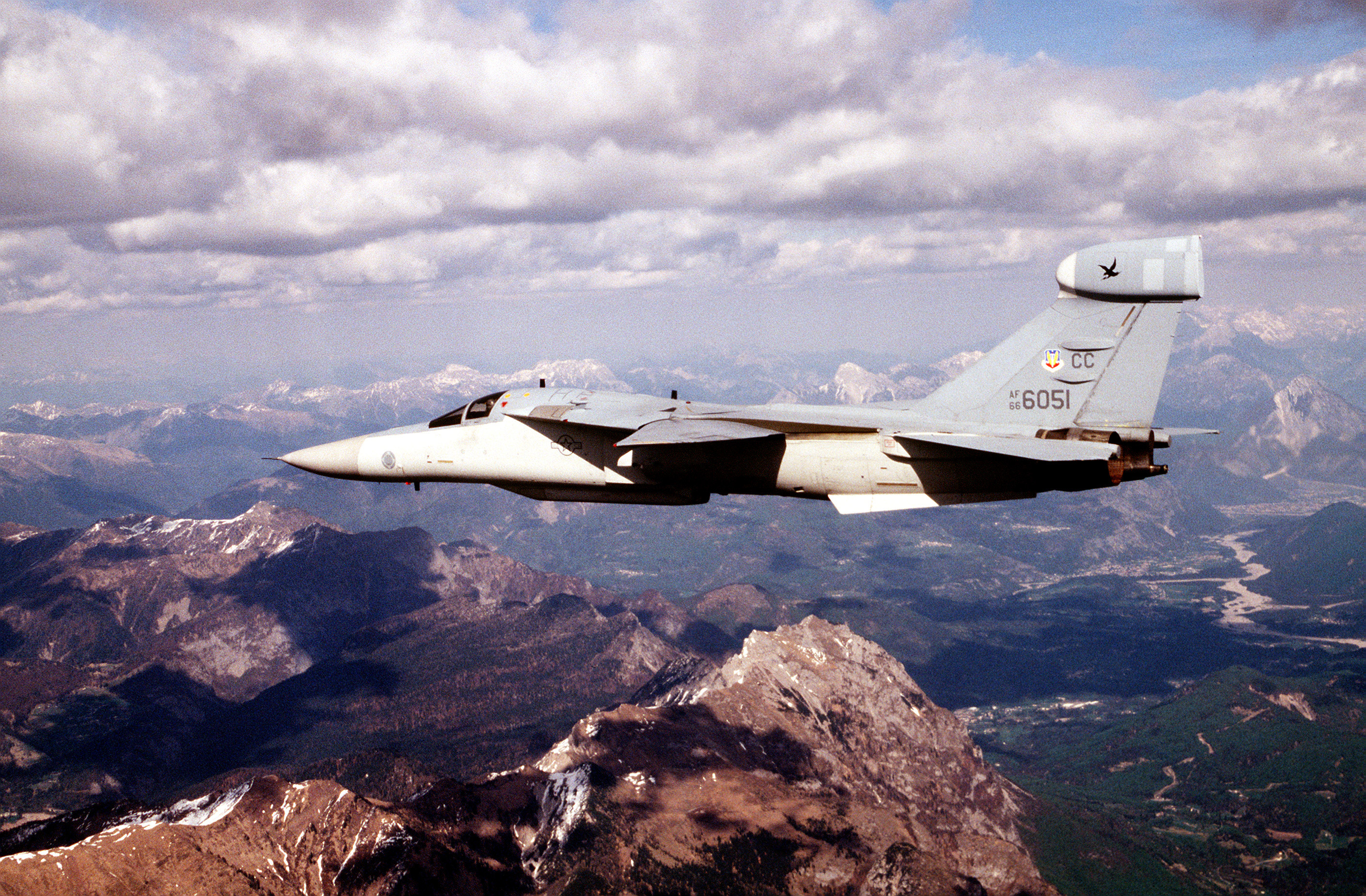 A US Air Force EF-111 Raven deployed to Aviano Air Base, Italy, from the 429th Electronic Combat Squadron, Cannon Air Force Base, NM, flies over the Alps of Northern Italy while on a mission. The EF-111 Raven is designed to provide electronic countermeasures support for tactical air forces and will detect, sort, identify and nullify different enemy radar systems in support of the NATO enforcement of the no fly zone over Bosnia. (Exact date unknown)